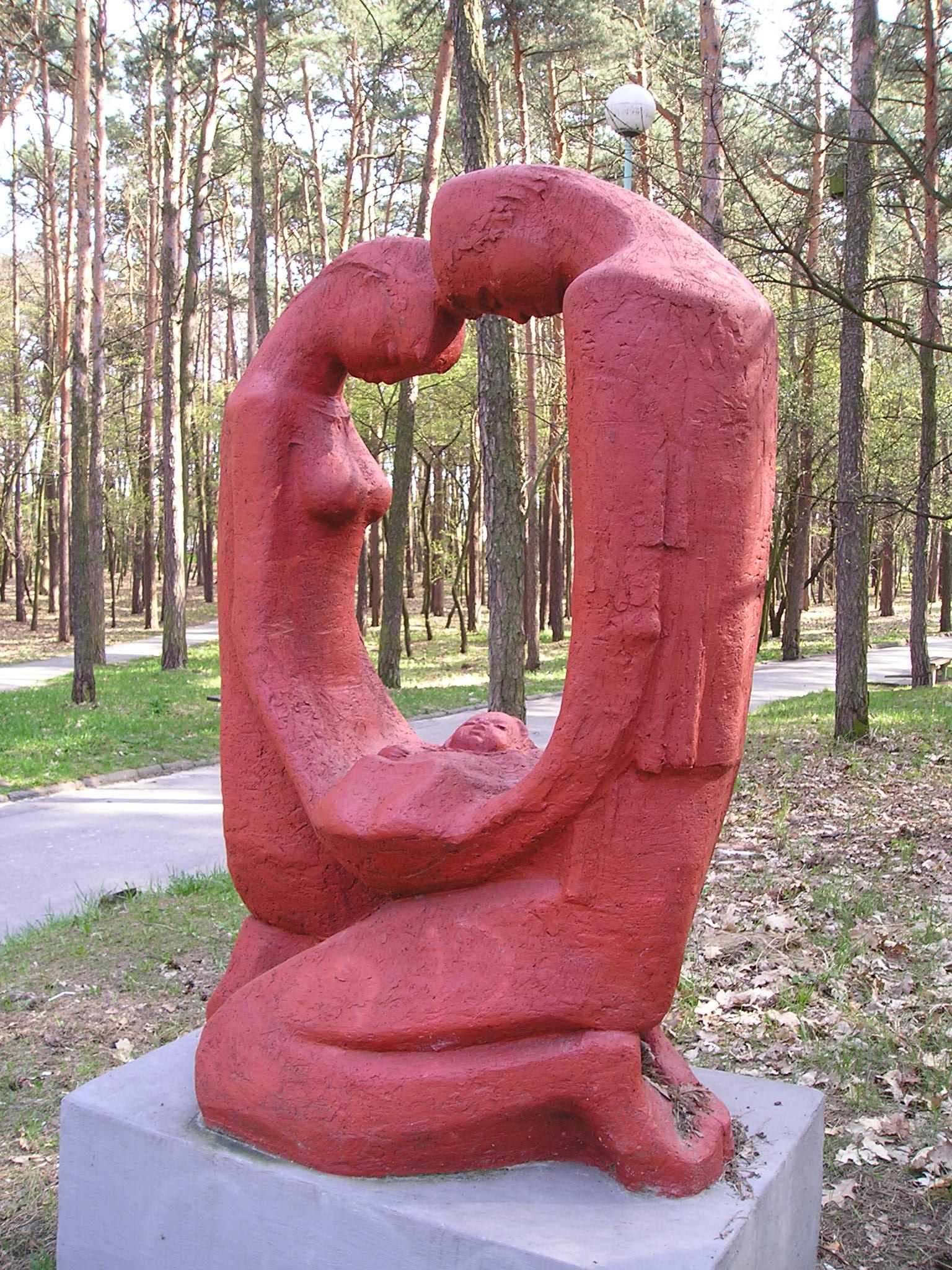 "Rodzina" sculpture, Mielec, Poland